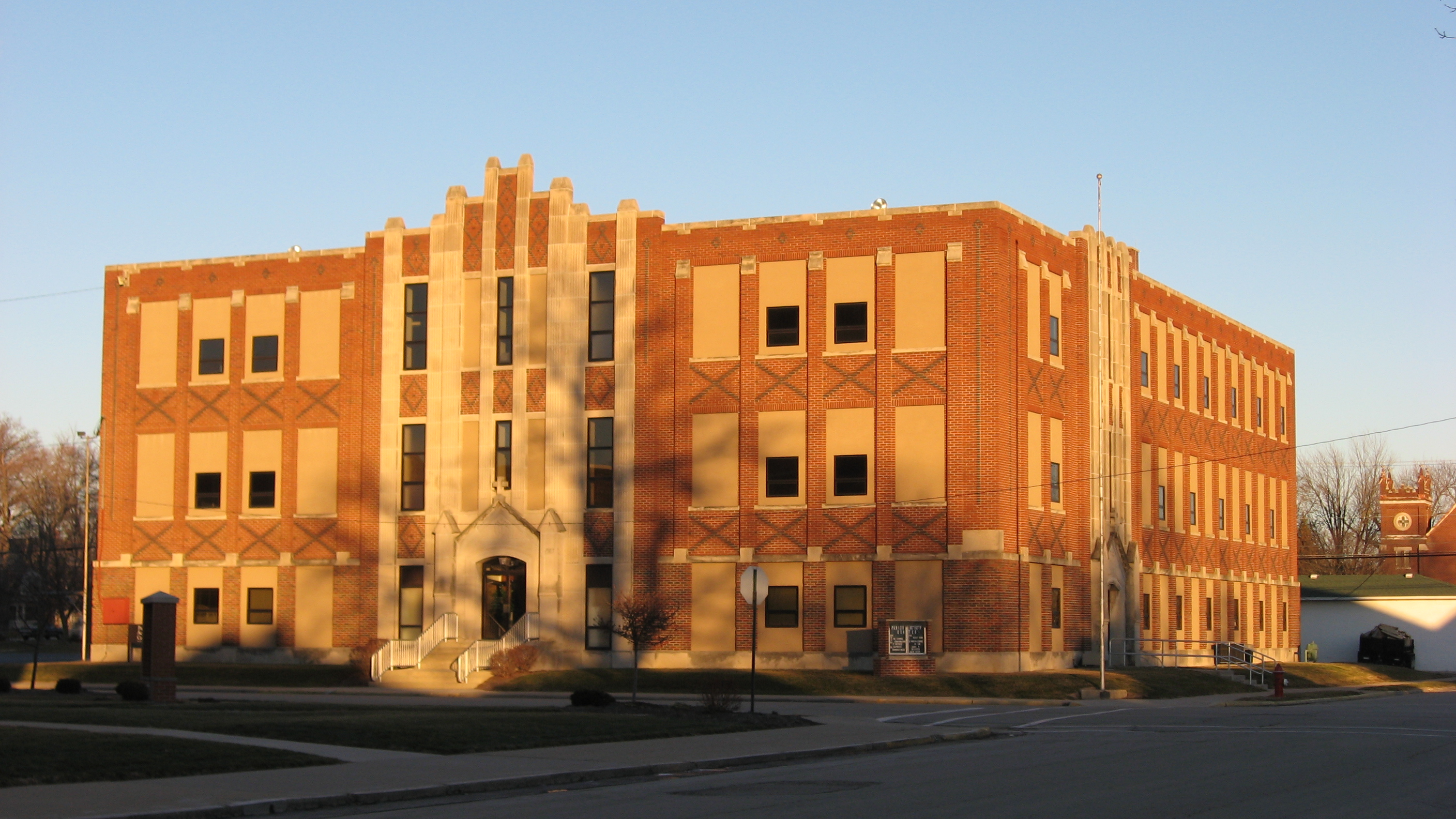 Front of the former Immaculate Conception Catholic High School, located on the northeastern of the intersection of Anthony and Walnut Streets in downtown Celina, Ohio, United States. Built in 1933, the school closed in 1972 and was later leased to the Celina City School District; it is now used as a parish hall. It is part of the Immaculate Conception Catholic Church Complex, which was listed on the National Register of Historic Places as a part of the Cross-Tipped Churches of Ohio Thematic Resources.